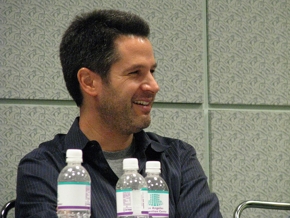 Mr. and Mrs. Smith screenwriter Simon Kinberg